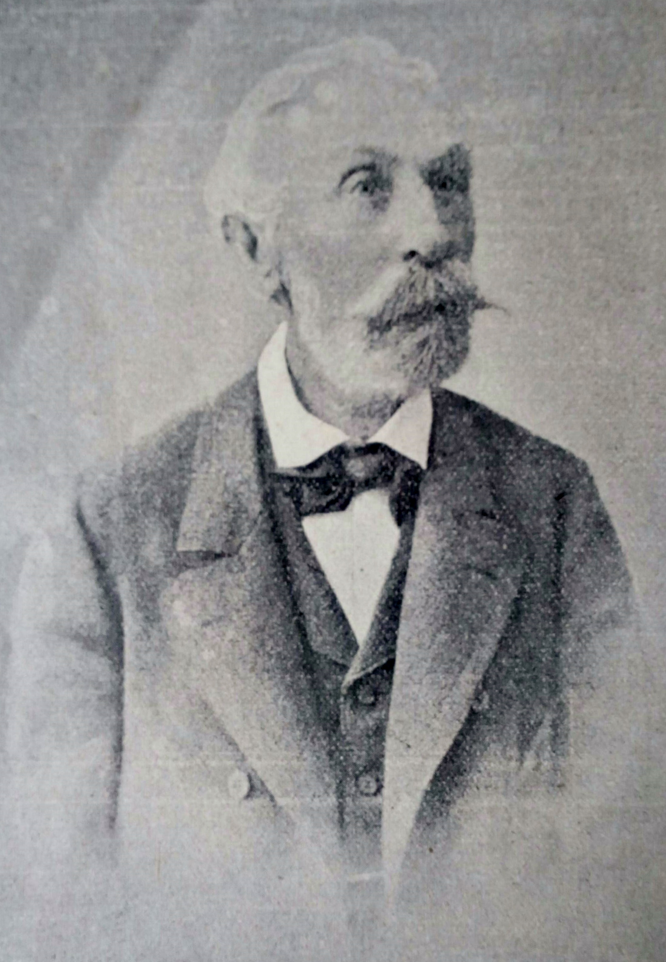 Đorđe Đoka Radak (1823-1906), Serbian lawyer, landowner and benefactor from Kikinda. Taken from the 1908 edition of the Matica Srpska Calendar. Srpski (latinica): Đorđe Đoka Radak (1823-1906), srpski pravnik, zemljopsednik i dobrotvor iz Kikinde. Preuzeto iz izdanja Kalendara Matice srpske za 1908. godinu.